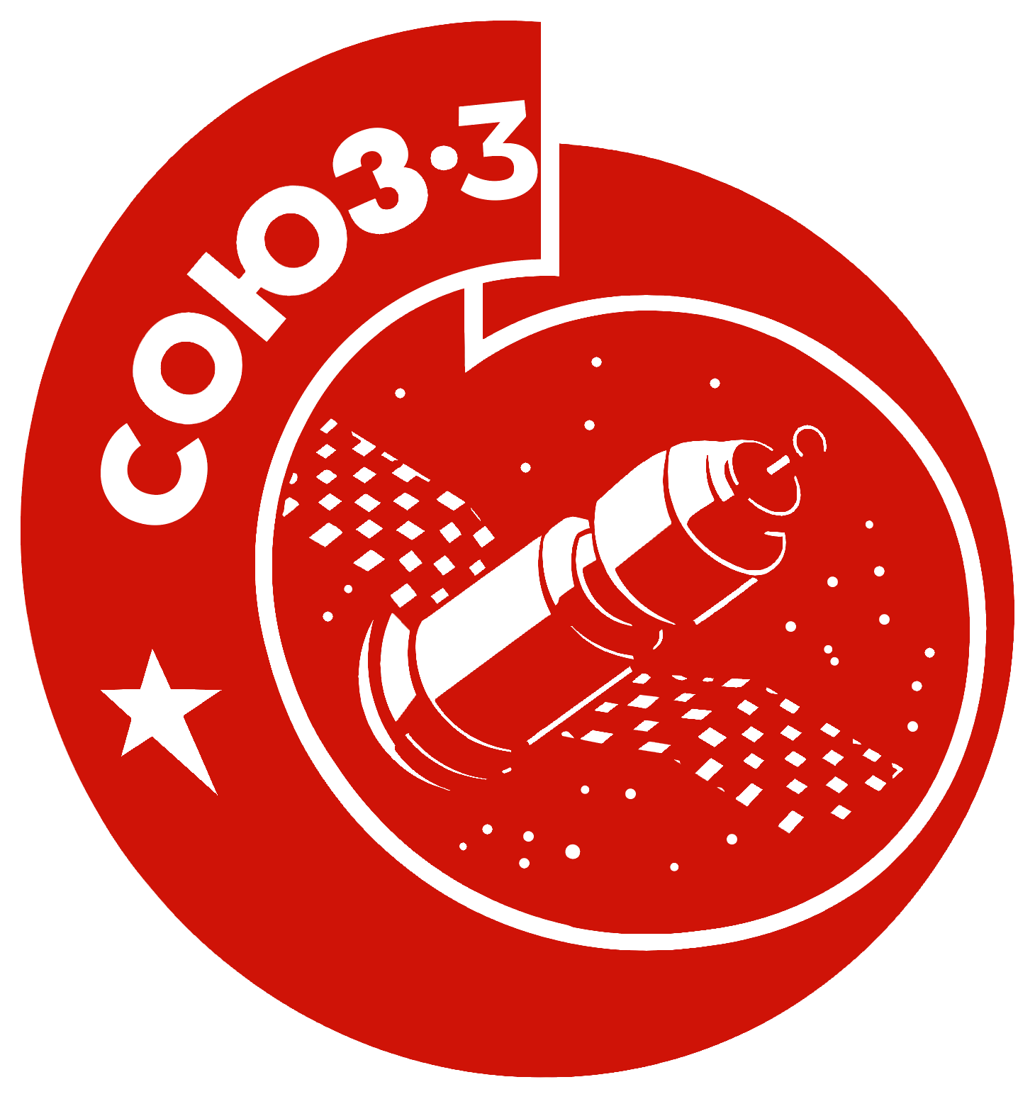 Soyuz 3 insignia